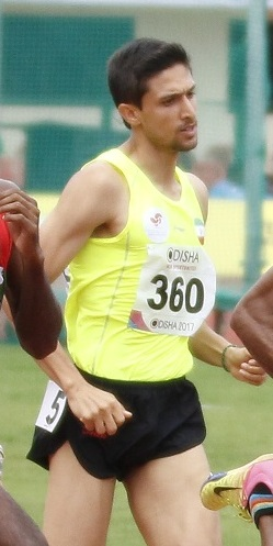 Athletes during 22nd Asian Athletics Championships in Bhubaneswar.